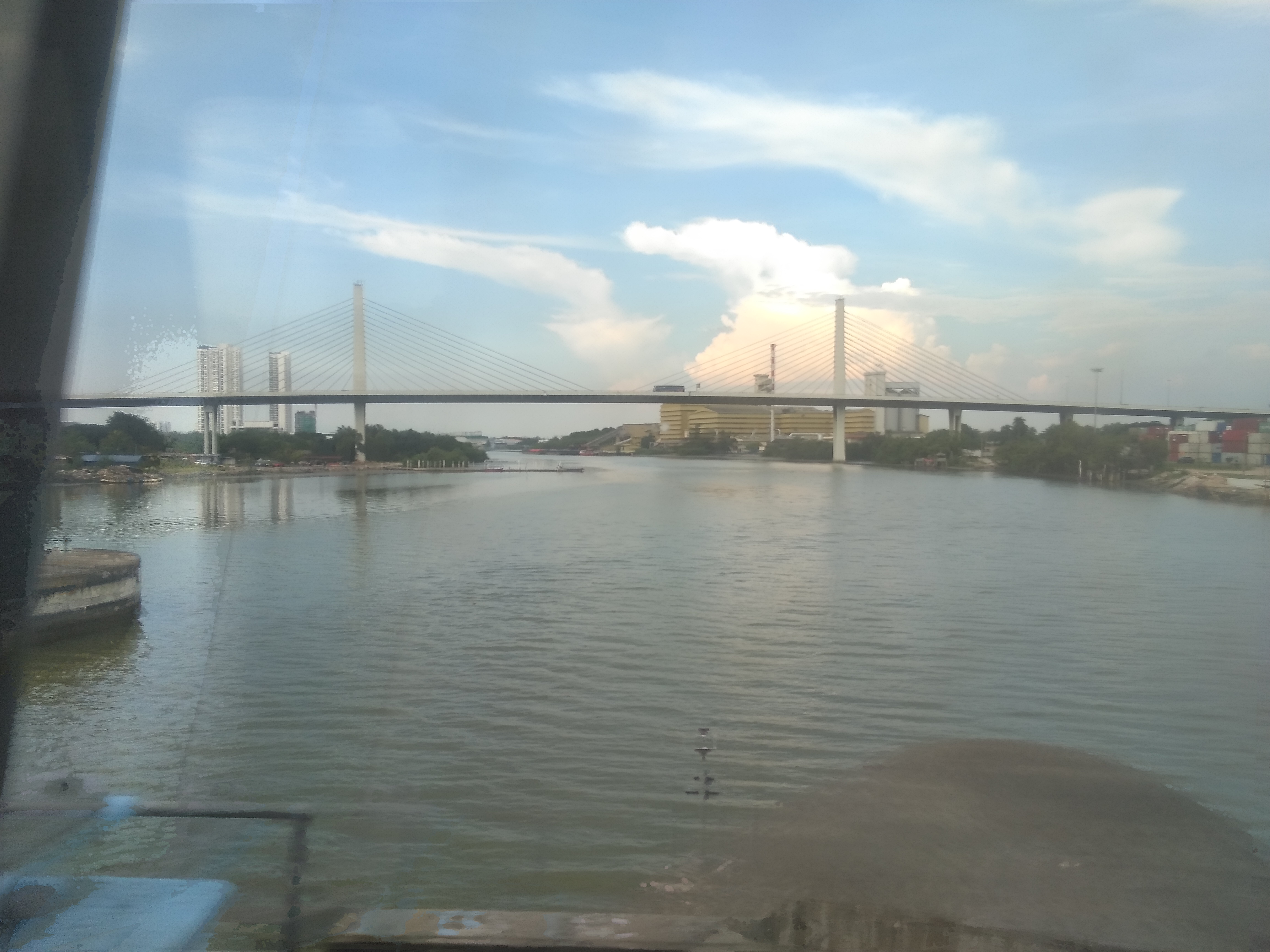 BORR Perai bridge